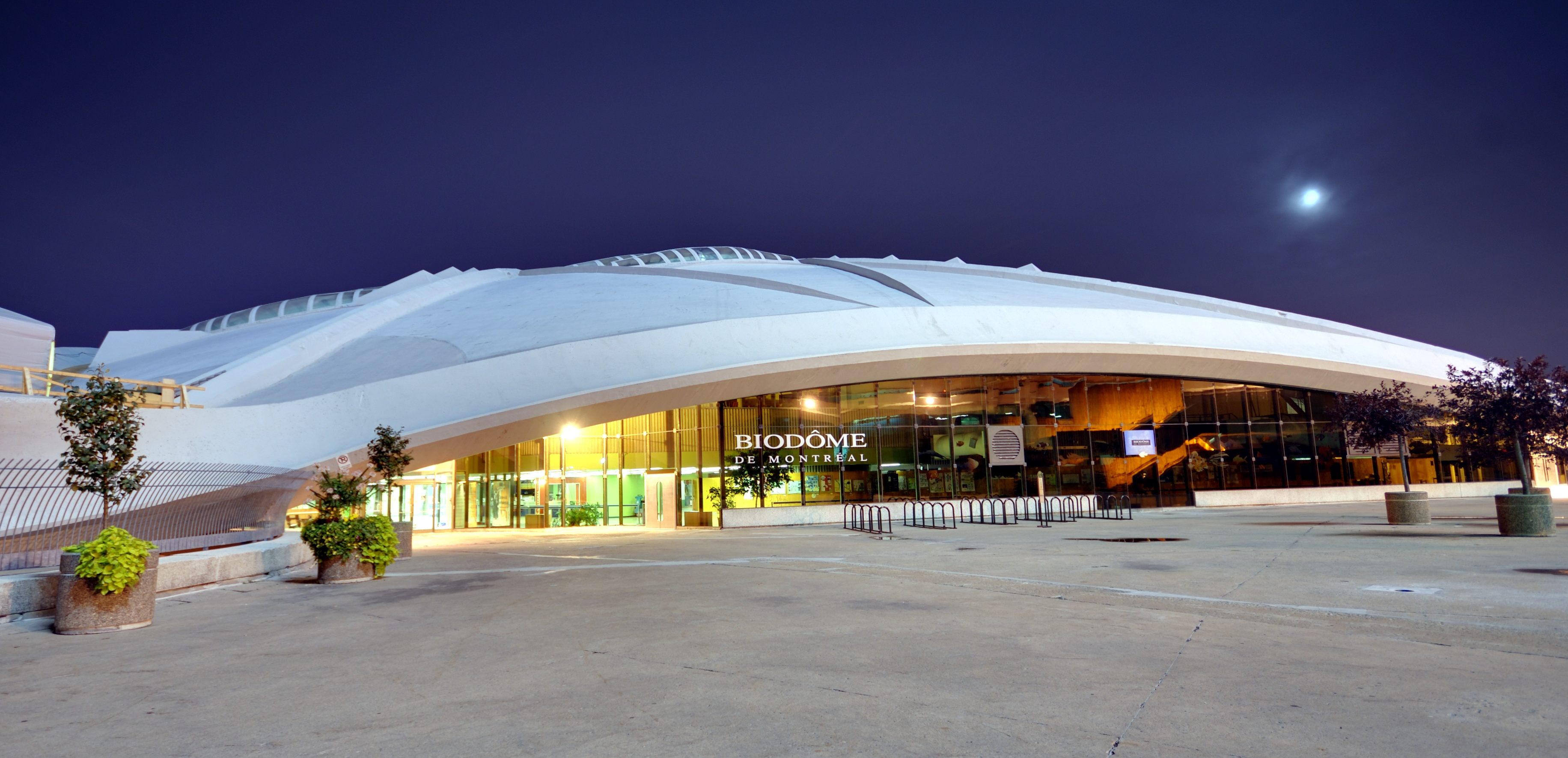 Biodome at Olympic Stadium in Montreal